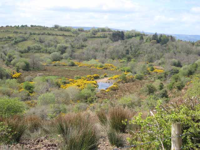 Valley of the Yellow River — Ireland. Particularly appropriately named whilst the gorse is in bloom.